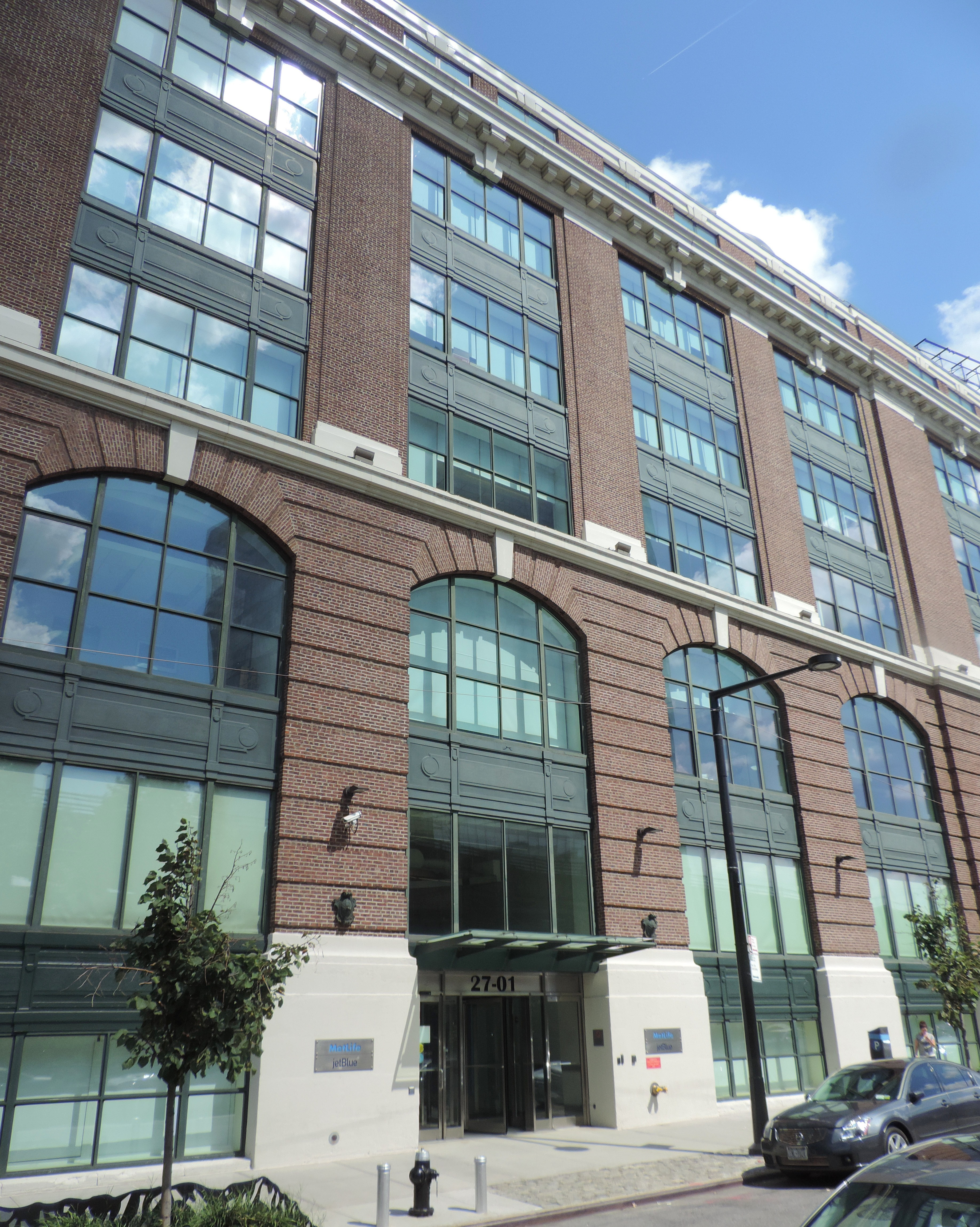 Brewster Building, JetBlue headquarters - Looking east at office building on a mostly sunny late morning.